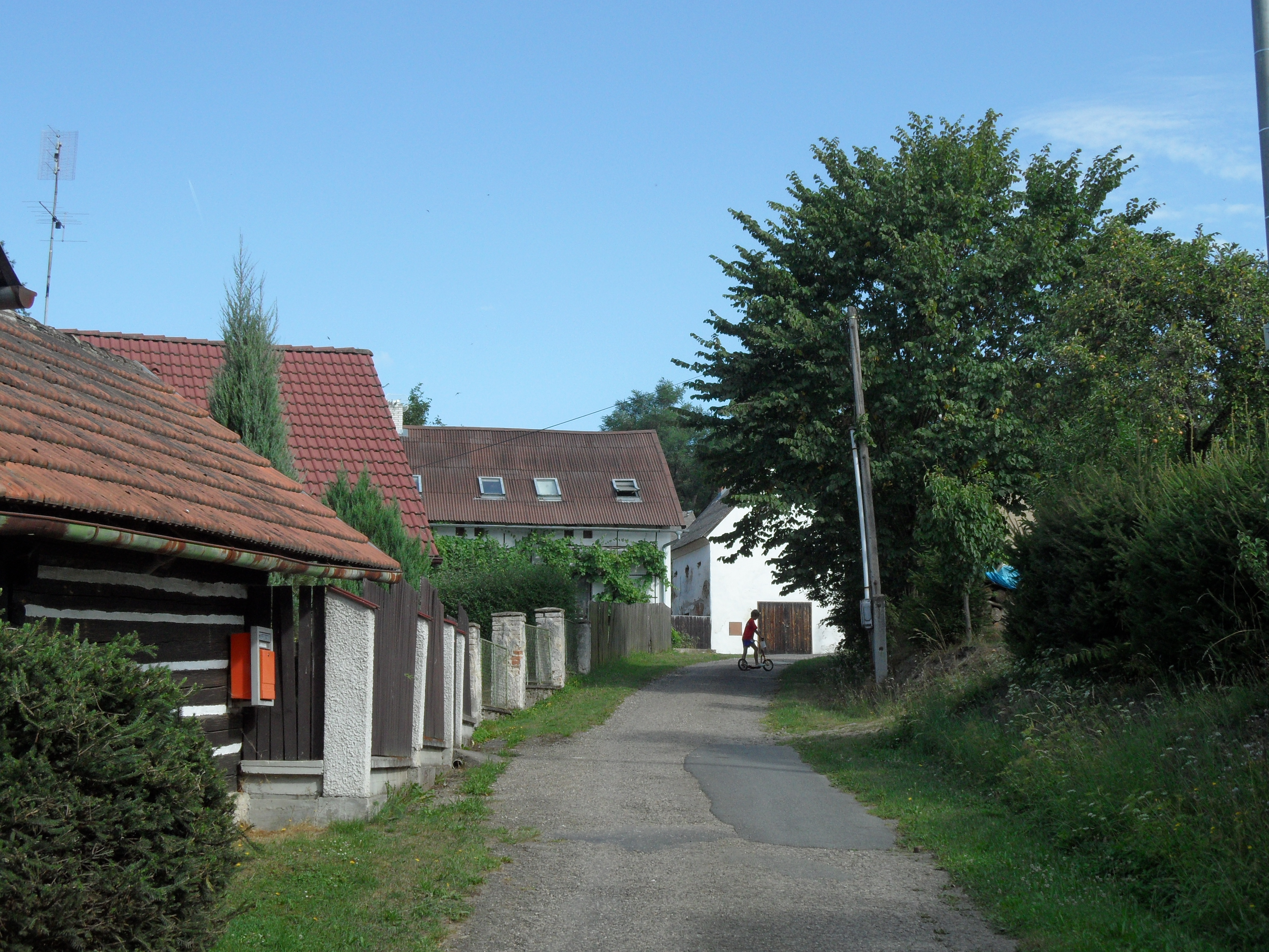 Budkovice (Pertoltice) A. Old Houses along Path, Kutná Hora District, the Czech Republic.